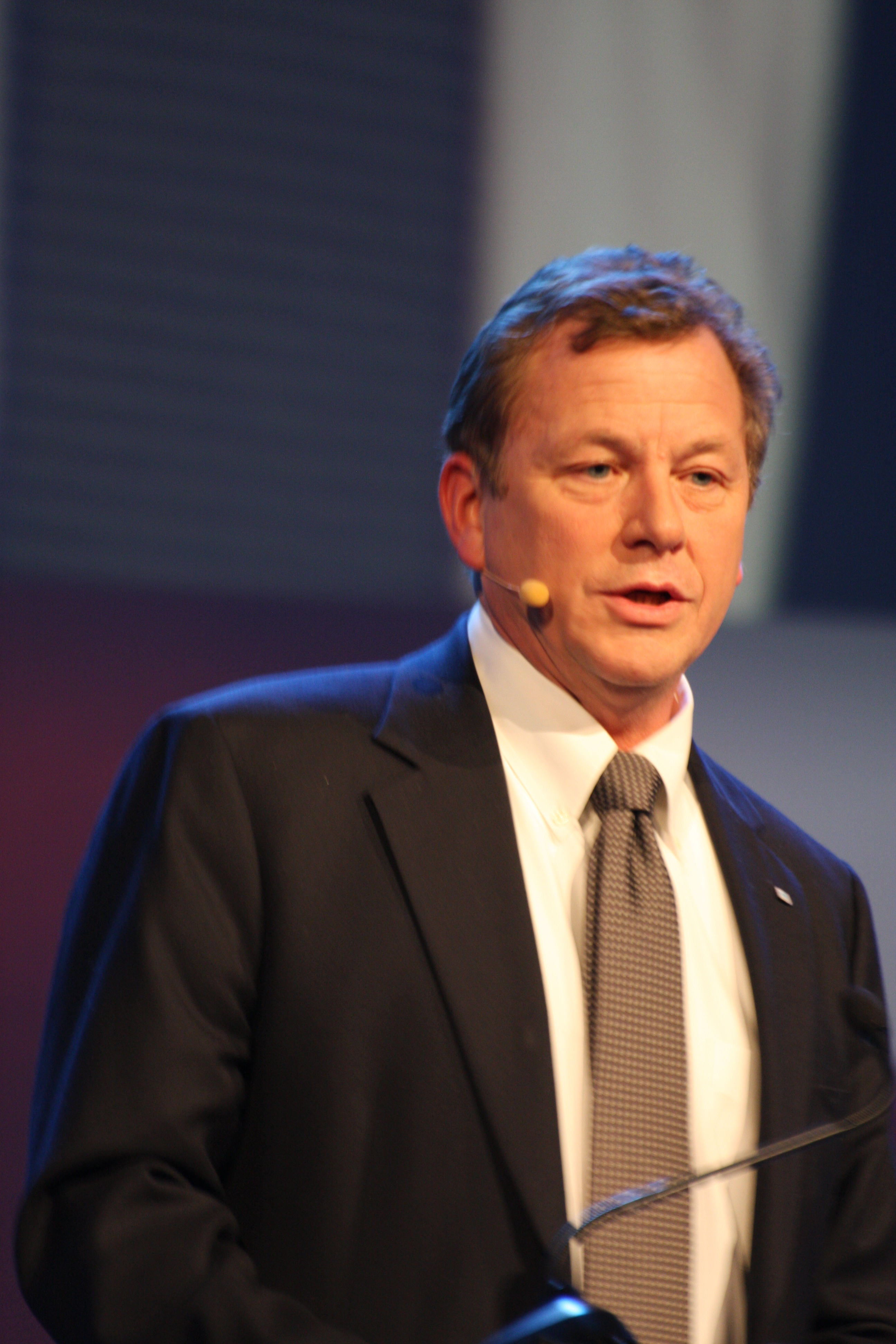 John Gordon Bernander, CEO of NHO, former CEO of NRK (Norway).